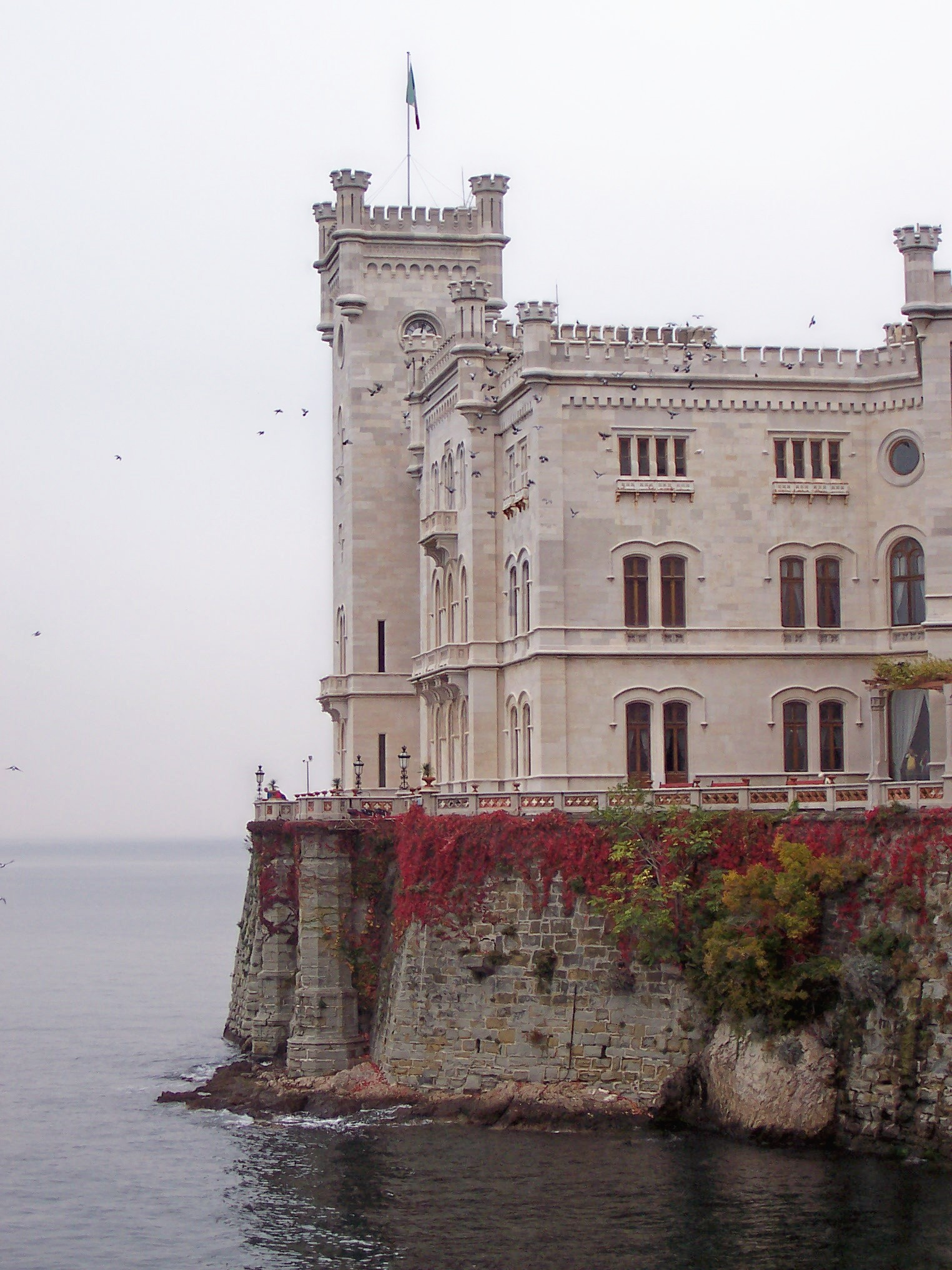 Lato verso il mare Source photographed by myself Photographer Pier Luigi Mora Date 31 october 2005 Camera Data Camera Kodak CX6330 zoom digital camera